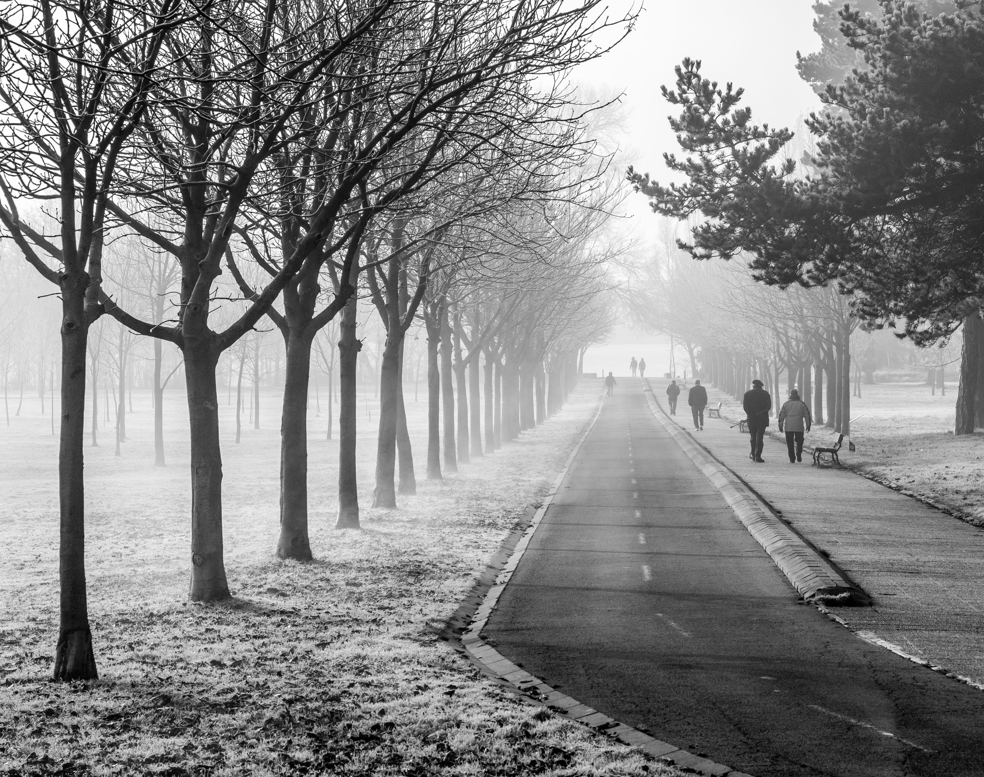 Hoar frost on a foggy morning at Olarizu Park. Vitoria-Gasteiz, Basque Country, Spain